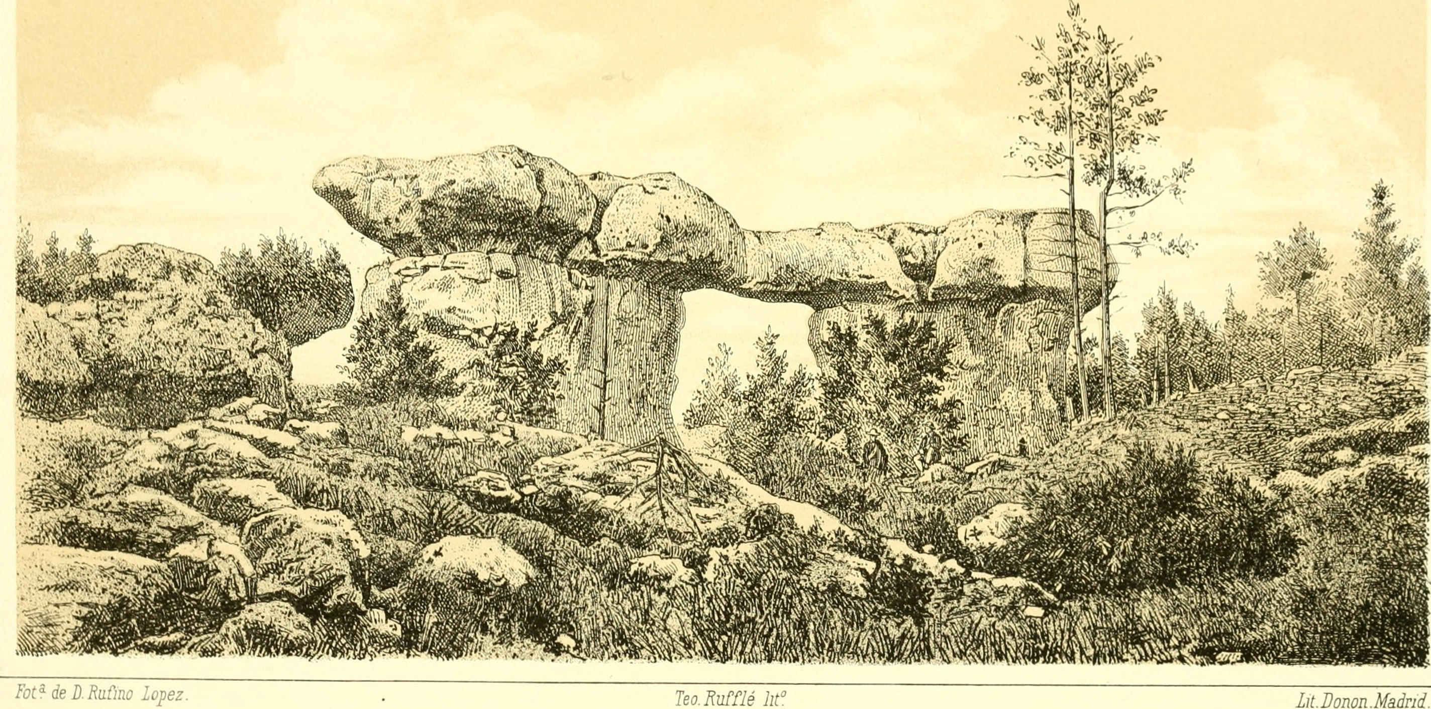 Title: Anales de la Sociedad Española de Historia Natural Year: 1875 (1870s) Authors: Sociedad Española de Historia Natural Subjects: Natural history; Natural history Publisher: Madrid : La Sociedad Text Appearing Before Image: ' Text Appearing After Image: '